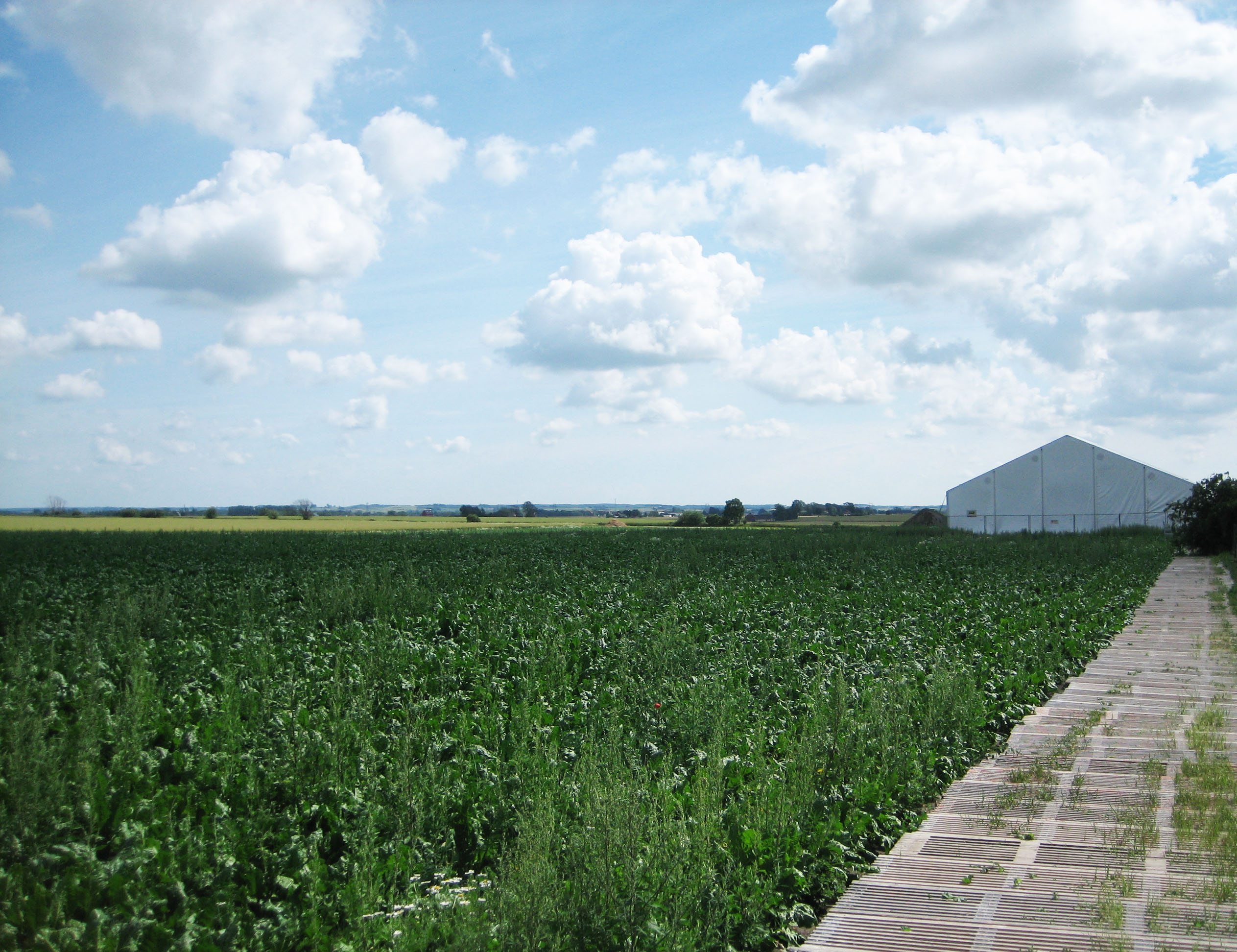 South of Uppåkra church in Skåne, Sweden - the spot of old Uppåkra and archeological projects.